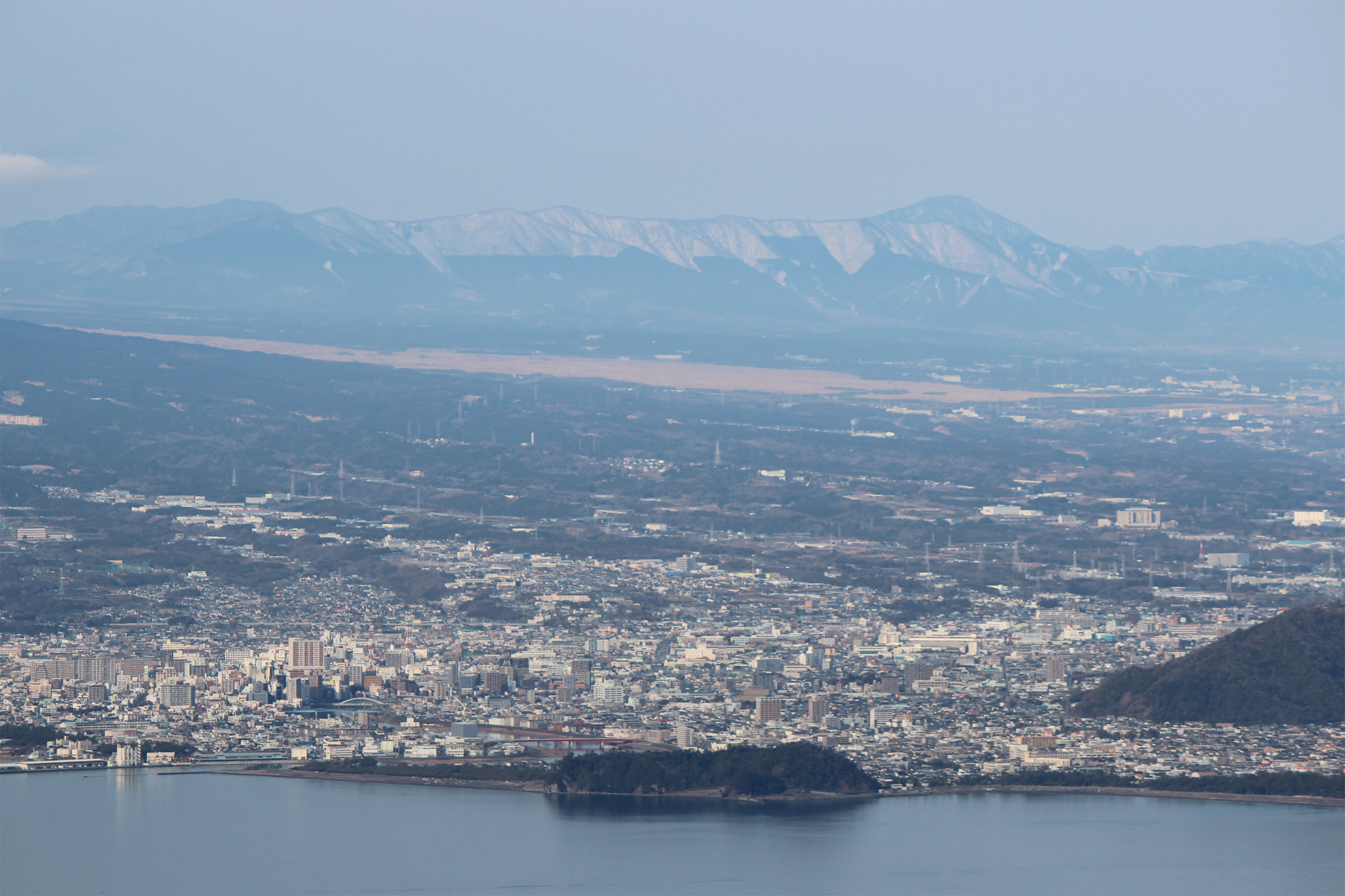 Downtown of Numazu as seen from the south in Shizuoka Prefecture, Japan.